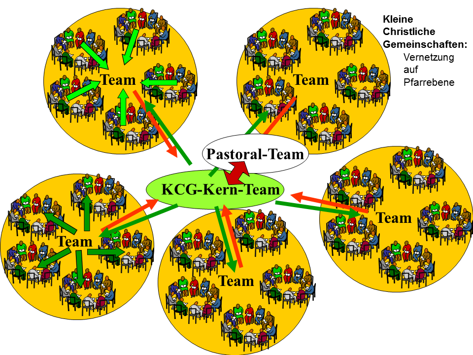 The file shows how KCGs (Small Christian Groups) are structured and work together.